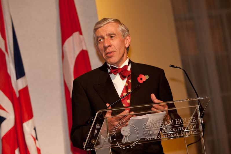 Rt Hon Jack Straw MP